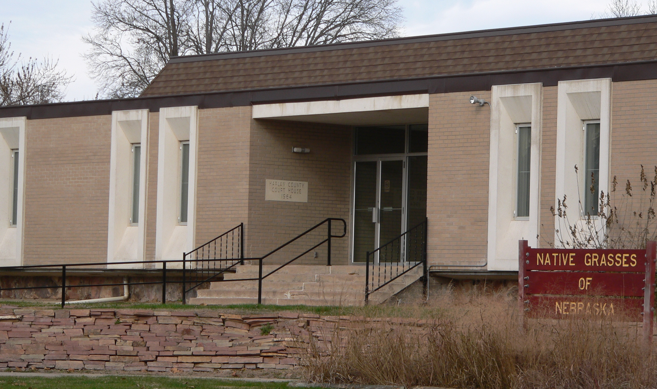 Front (south) entrance of Harlan County courthouse at 706 W. 2nd St. in Alma, Nebraska. The courthouse was built in 1964.